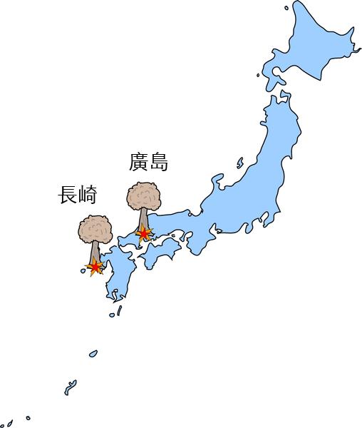 Map of Japan with location of Hiroshima and Nagasaki